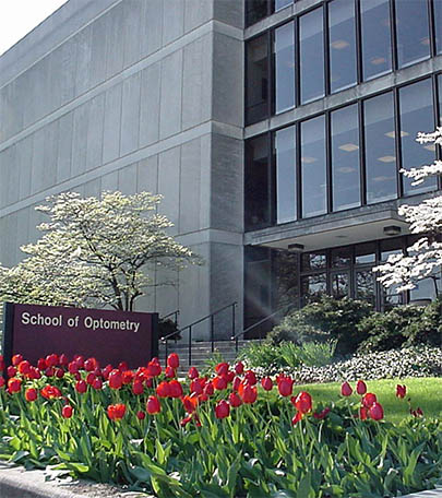 This is a photo of the Indiana University School of Optometry located in Bloomington, Indiana.